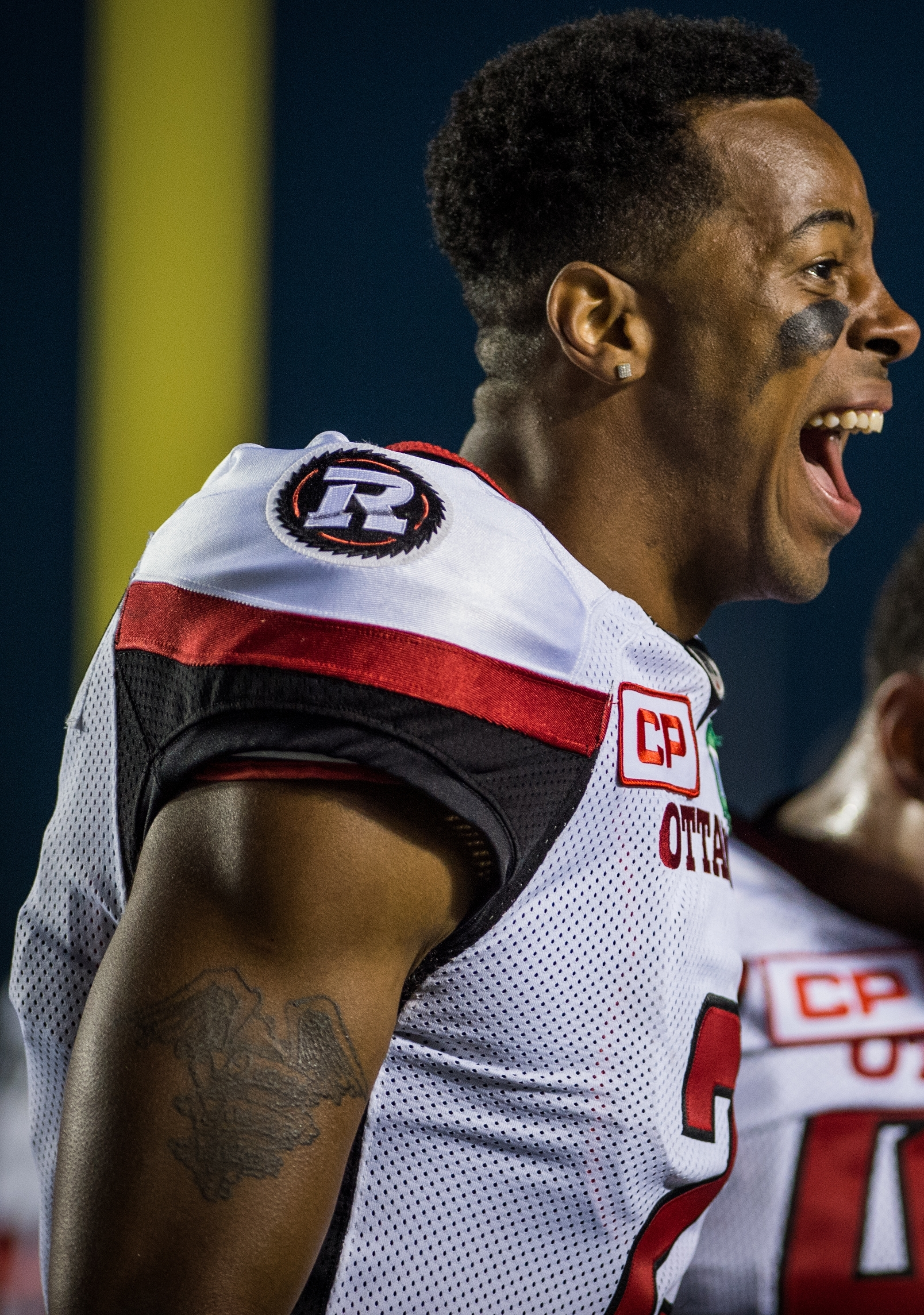 Jermaine Robinson (2) of the Ottawa REDBLACKS during the pre-season game against the Winnipeg Blue Bombers at TD Place in Ottawa, ON on Monday June 13, 2016. (Photo: Johany Jutras)